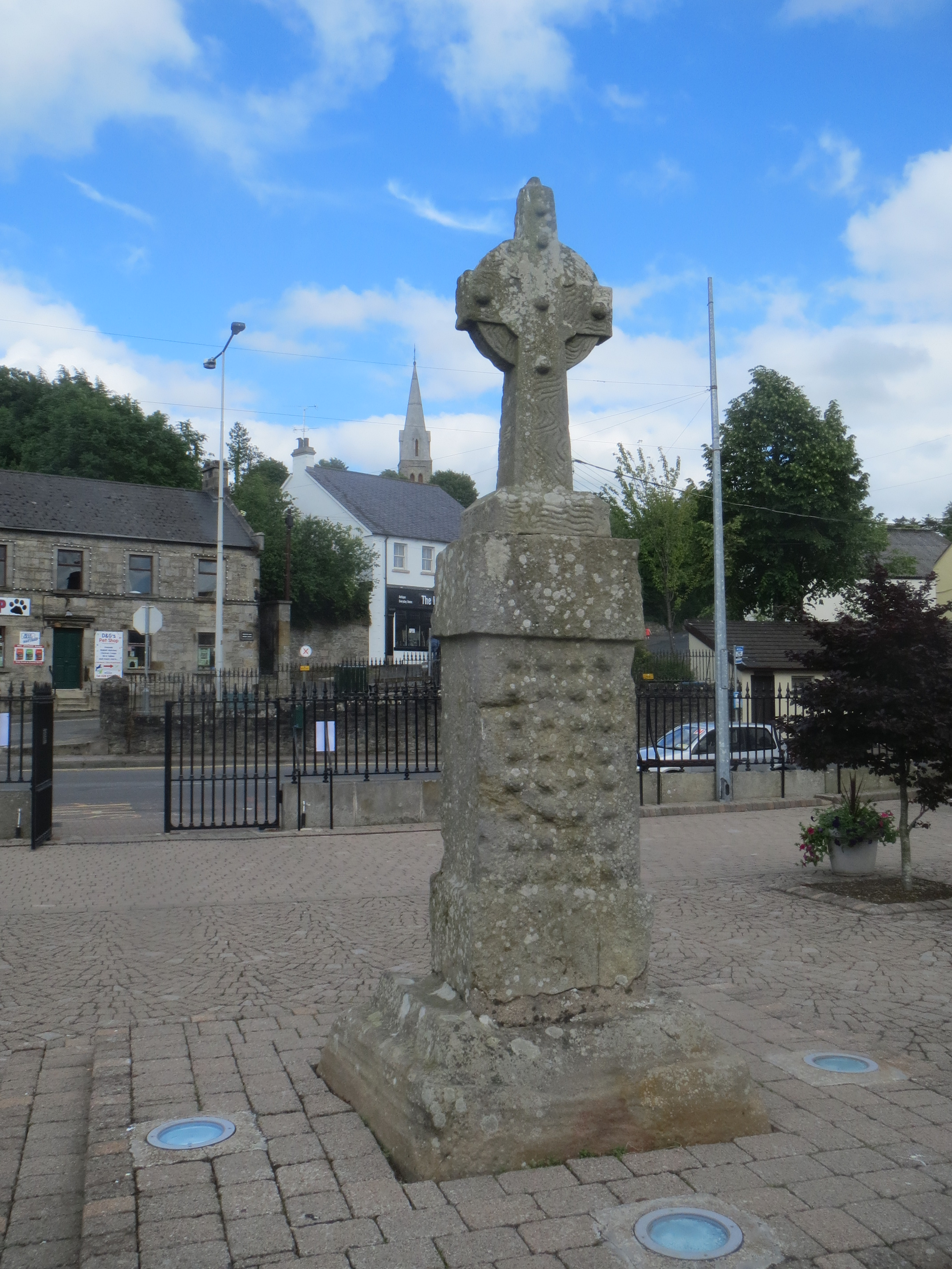 Lisnaskea High cross 1